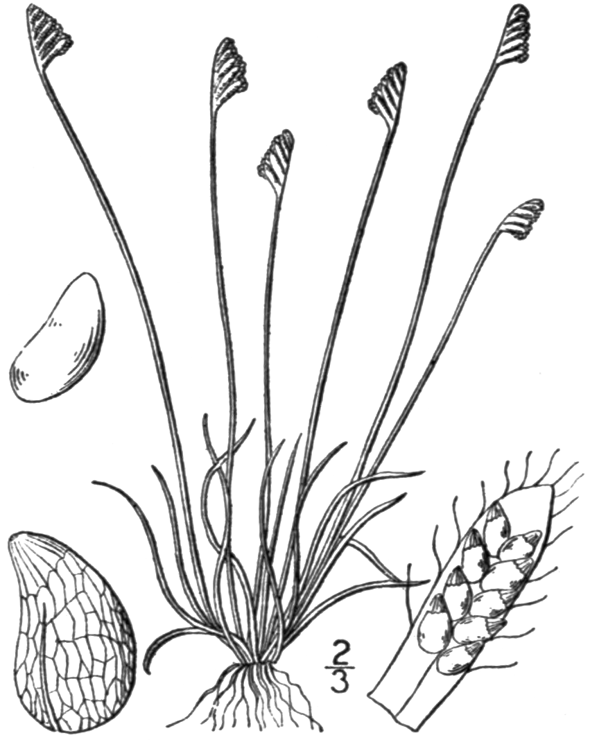 Fig. 19. Schizaea pusilla from the second edition of An Illustrated Flora of the Northern United States, Canada and the British Possessions (New York, 1913)